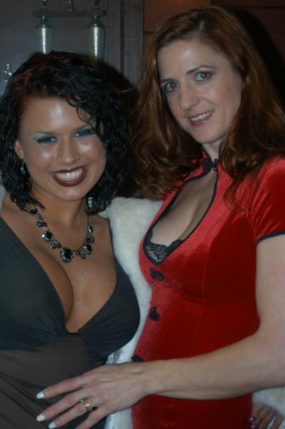 Eva Angelina and Christina Noir at the FOXE Awards on February 20, 2005